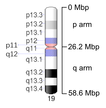 Ideogram of human chromosome 19. G-band, 550 bphs (bands per haploid set). Black and gray: Giemsa positive. Red: Centromere. Light blue: Variable region. Dark blue: Stalk. Mbp: Mega base pairs.